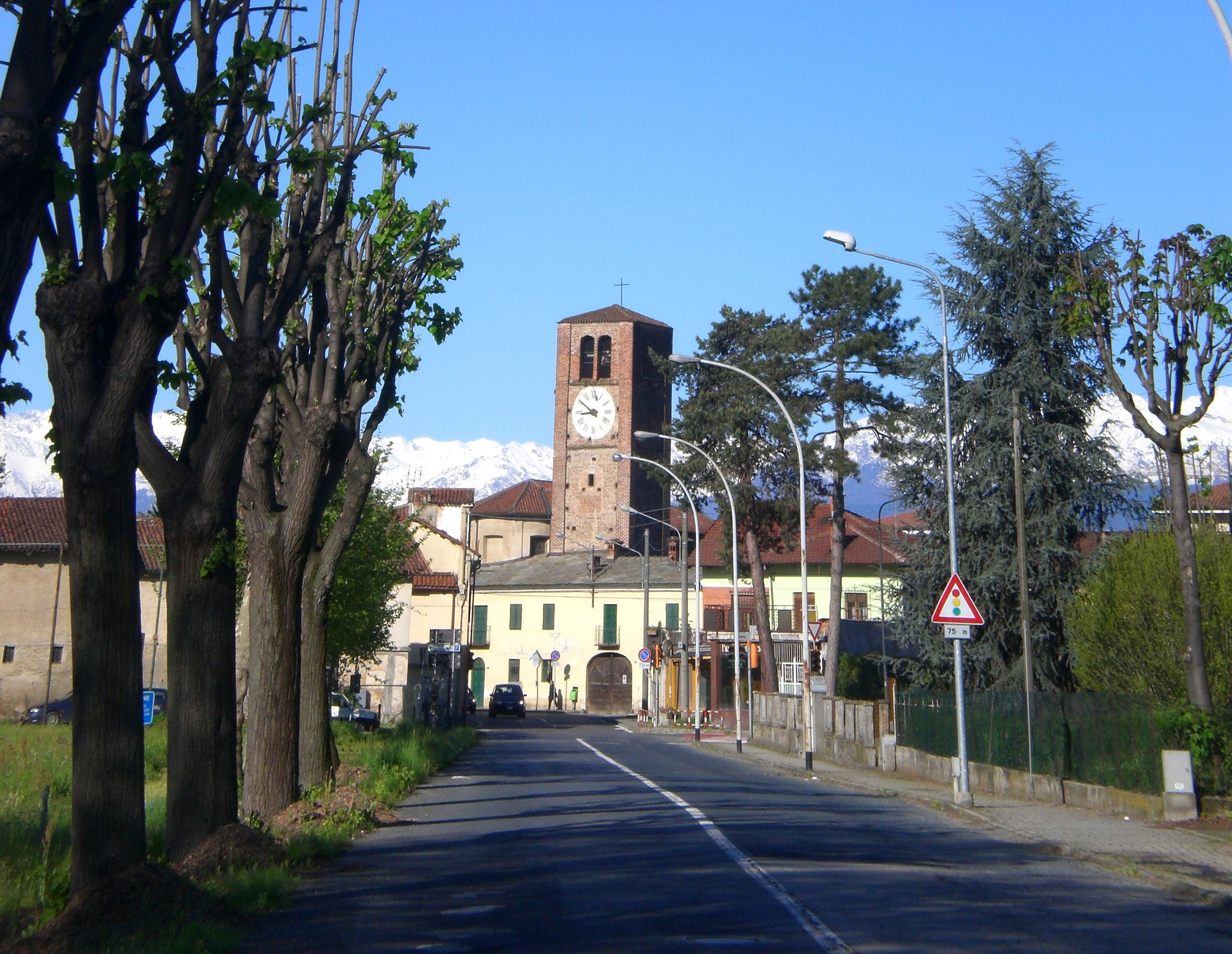 Airasca